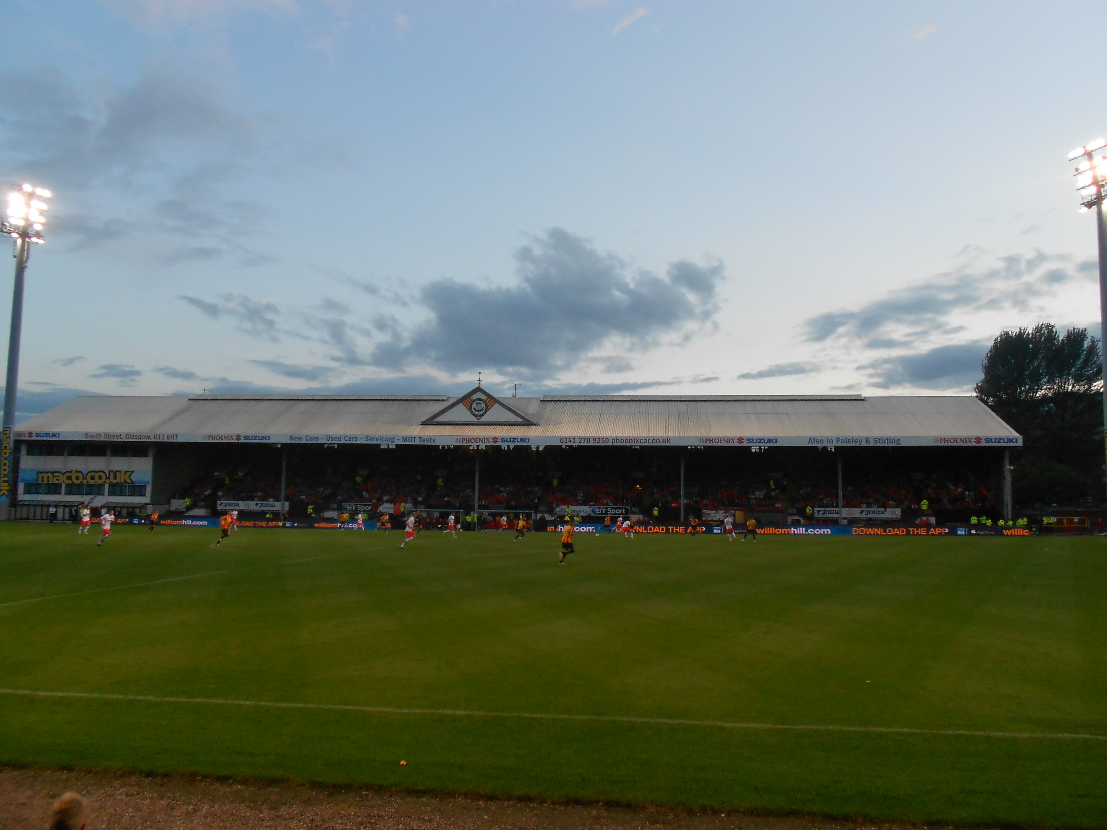 A photograph of Firhill in the evening. Partick Thistle vs Dundee United.